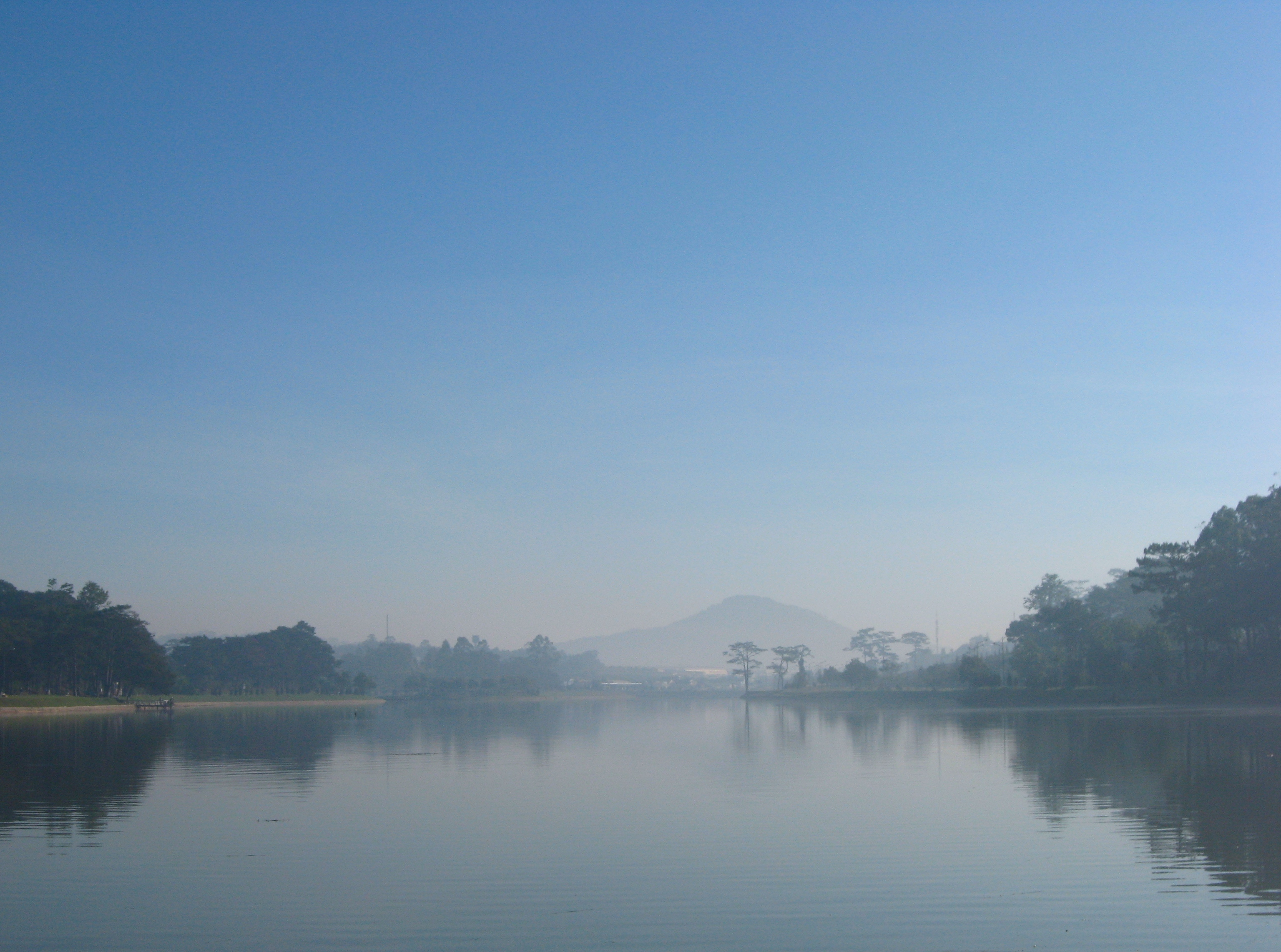 Xuan Huong lake in the morning